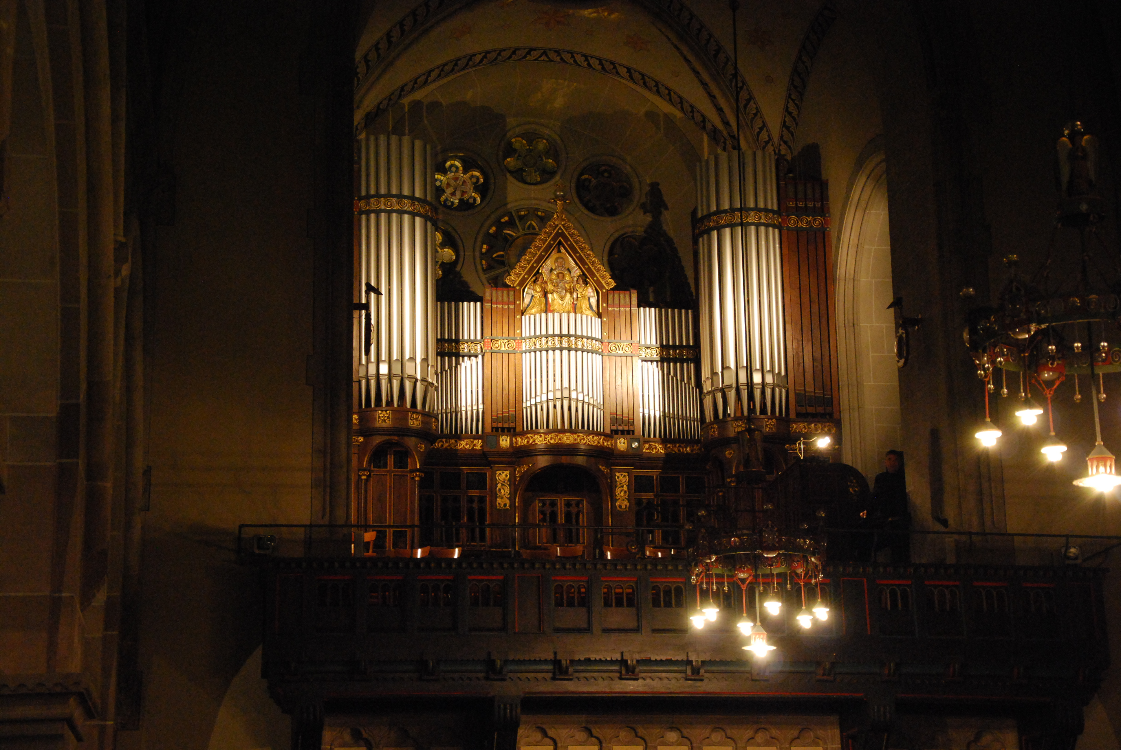 Klais-Organ at St. Elisabeth Bonn